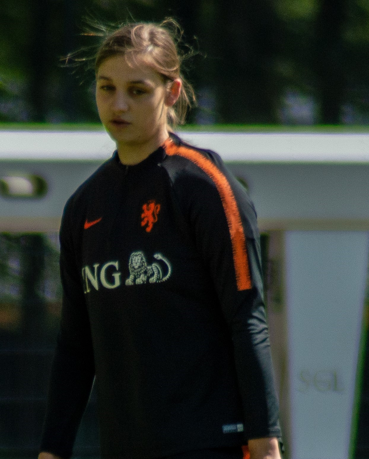 Aniek Nouwen training at the KNVB Campus on May 14, 2019.